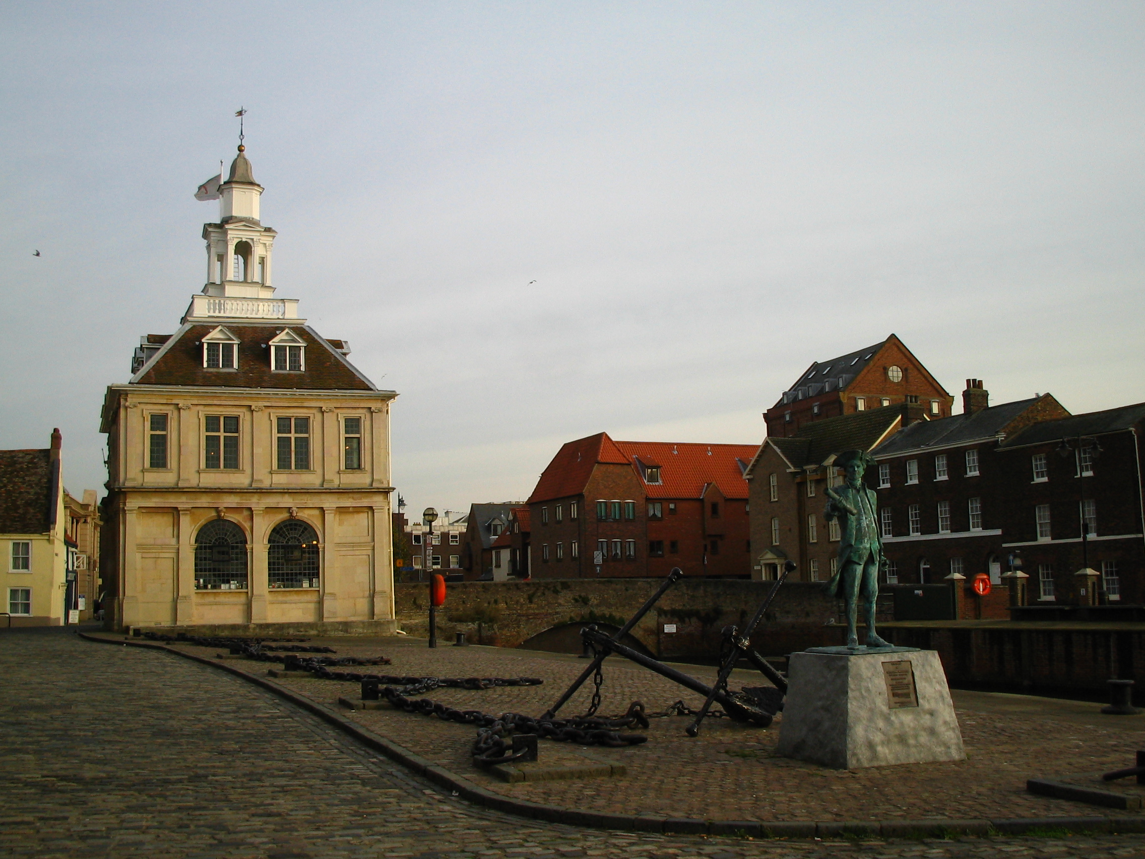 A photograph of the Customs House in King's Lynn. In the foreground is a statue of Captain George Vancouver, an explorer from the town who founded the city of Vancouver in Canada. The photograph was taken by myself (Ben Dickson) on November 14th 2005 with a Canon iXus i Digital Camera.